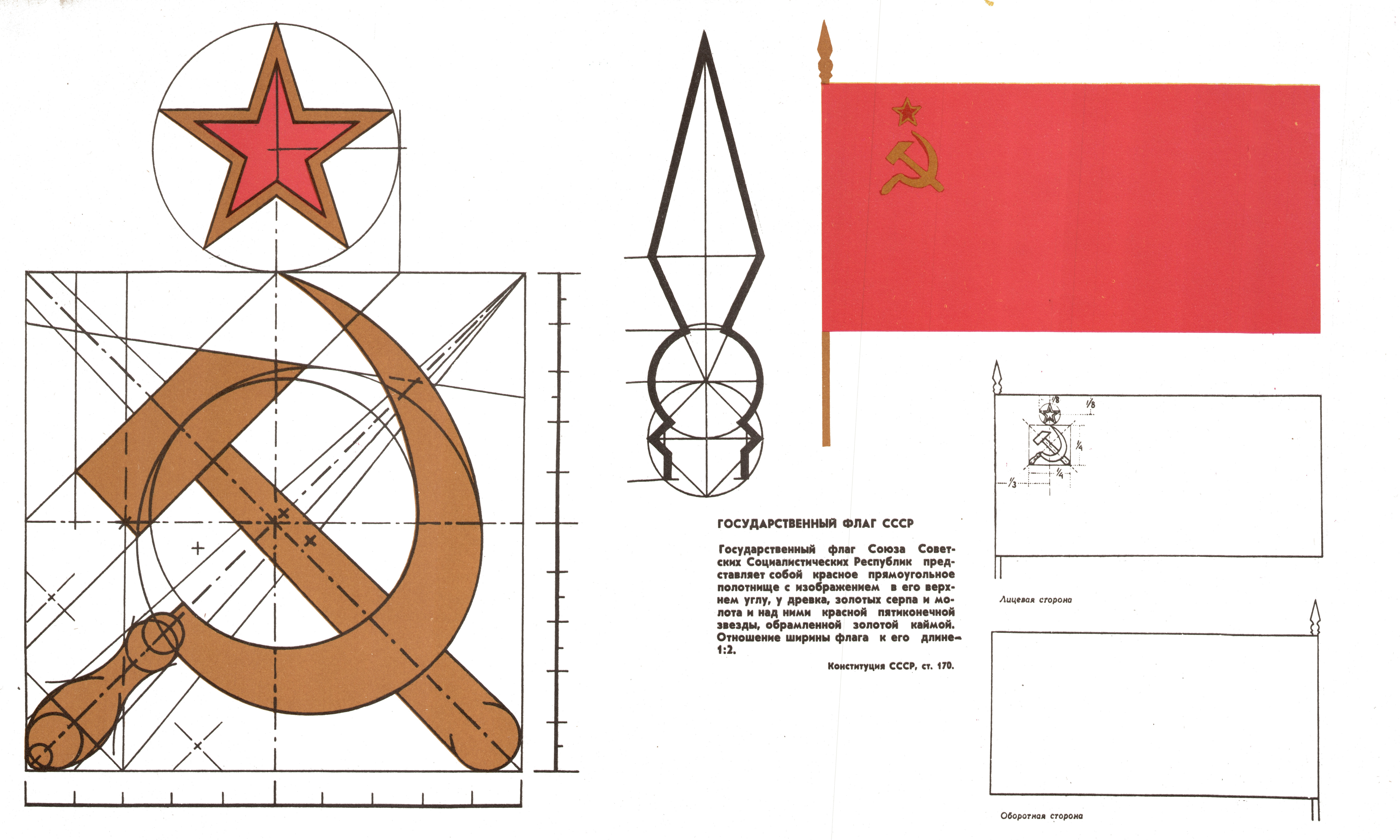 Construction sheet of the flag of the Soviet Union